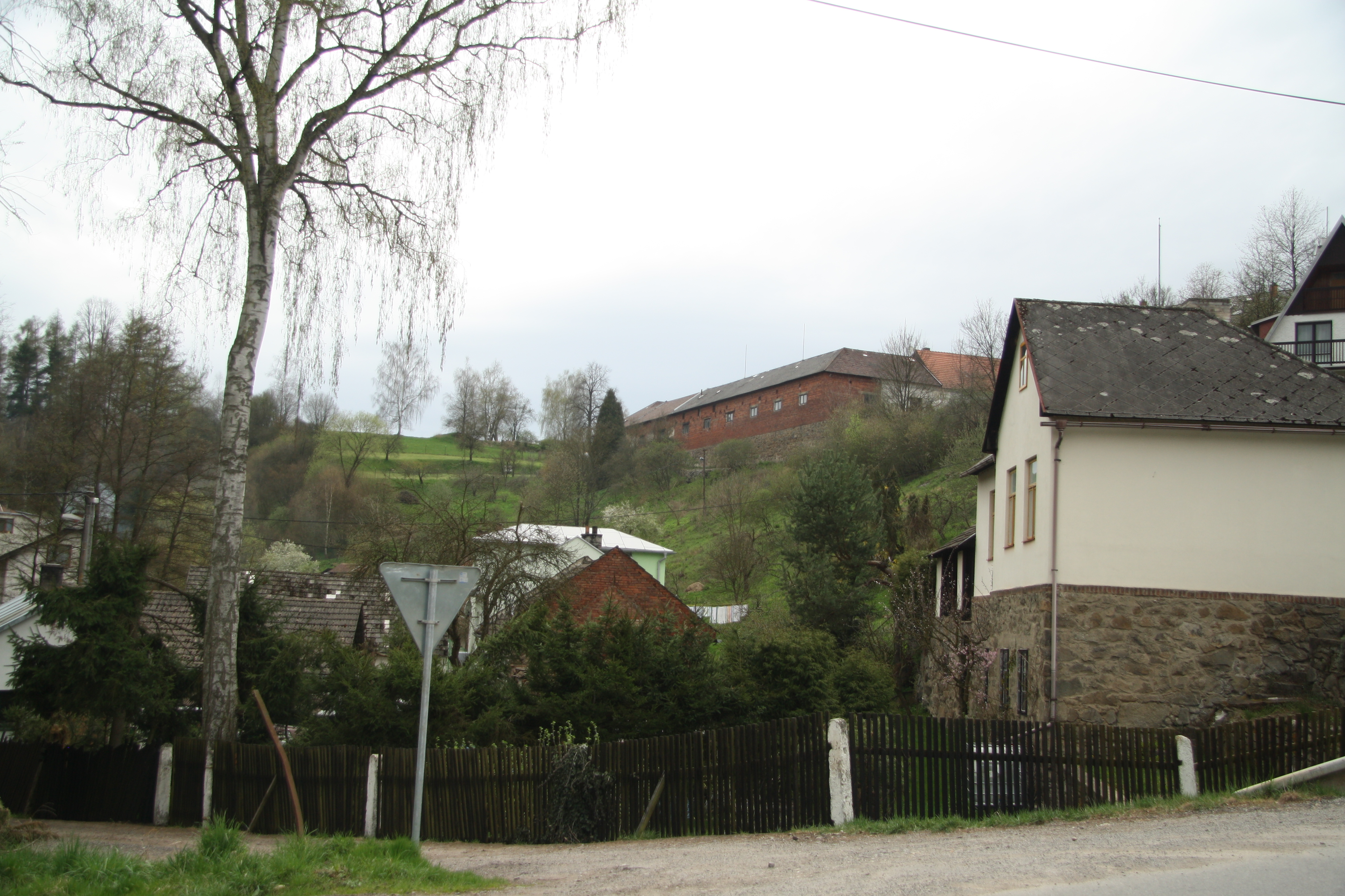 Center of Předboř, Luka nad Jihlavou, Jihlava District.